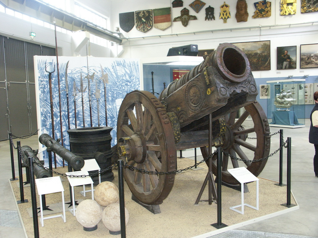 Faule Magd ("Lazy Maid"), a medieval cannon from ca. 1410–1430